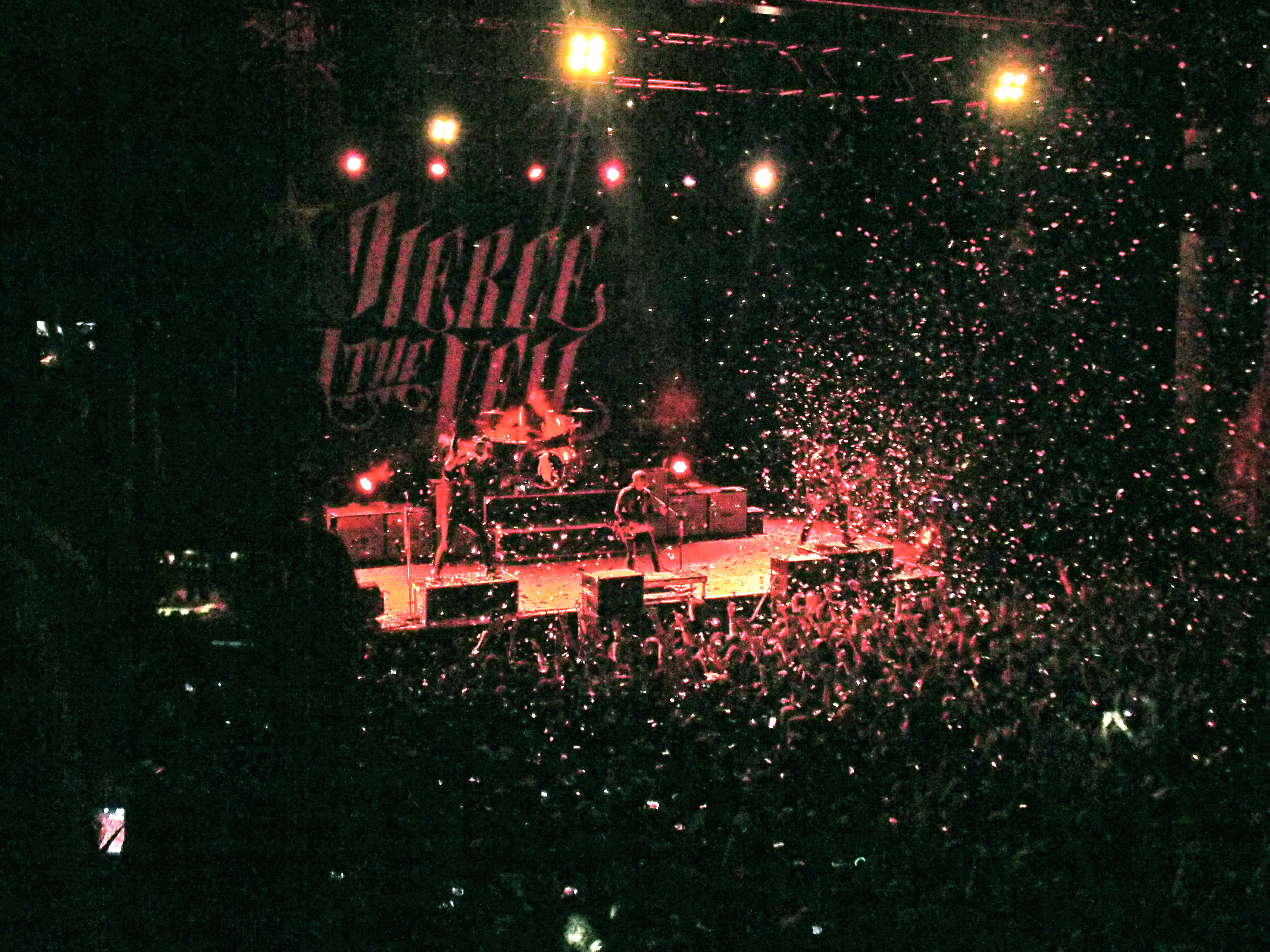 Pierce the Veil performing live at E-Werk Cologne during their World Tour with Sleeping with Sirens.